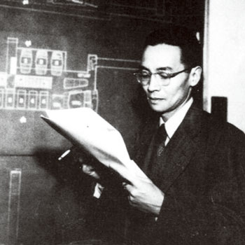 The picture shows that Liang Sicheng was teaching in Tsinghua University